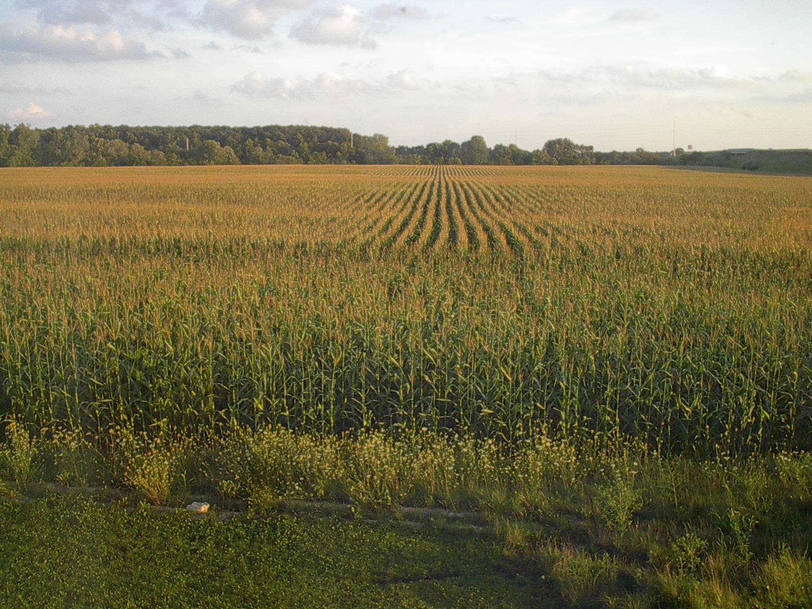 Cornfield in East Central Indiana (2005)